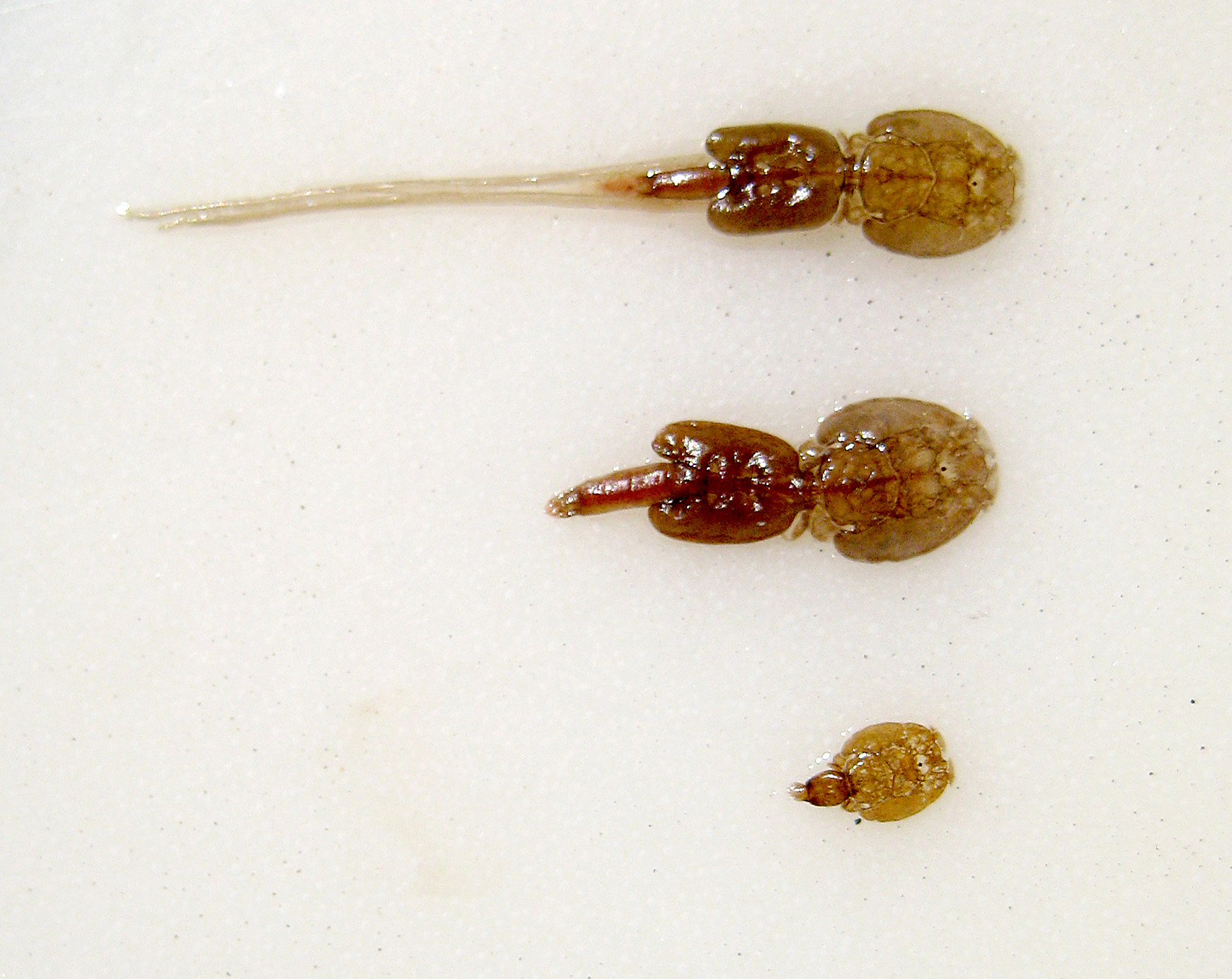 Salmon louse. From top: 1. Mature female with egg strings. 2. Mature female without eggstings. 3. Immature louse. Picture taken at Norwegian Aquaculture Center, Brønnøy, Norway